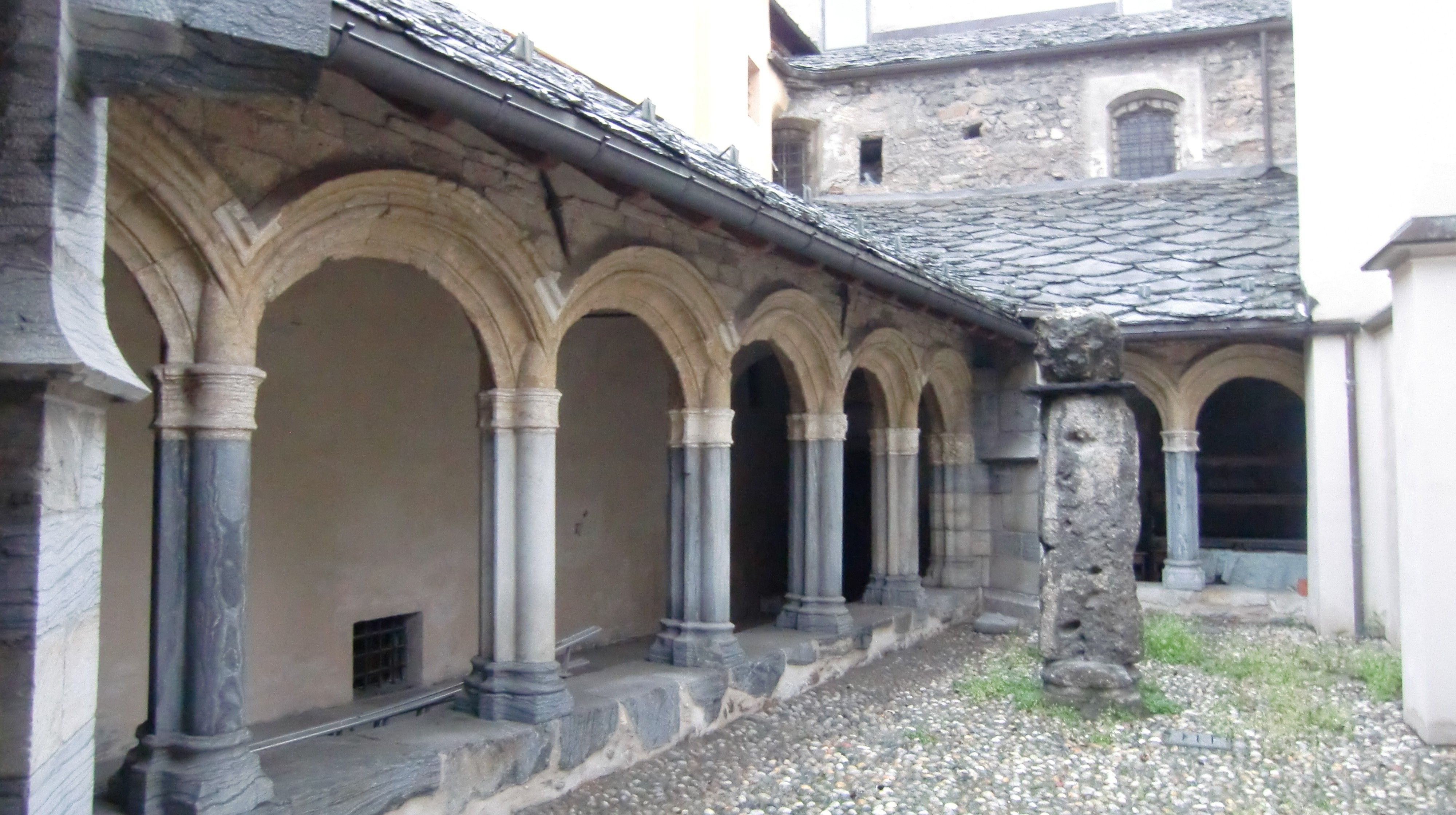 Cloister of Aosta Cathedral, Aosta, Italy; 1460